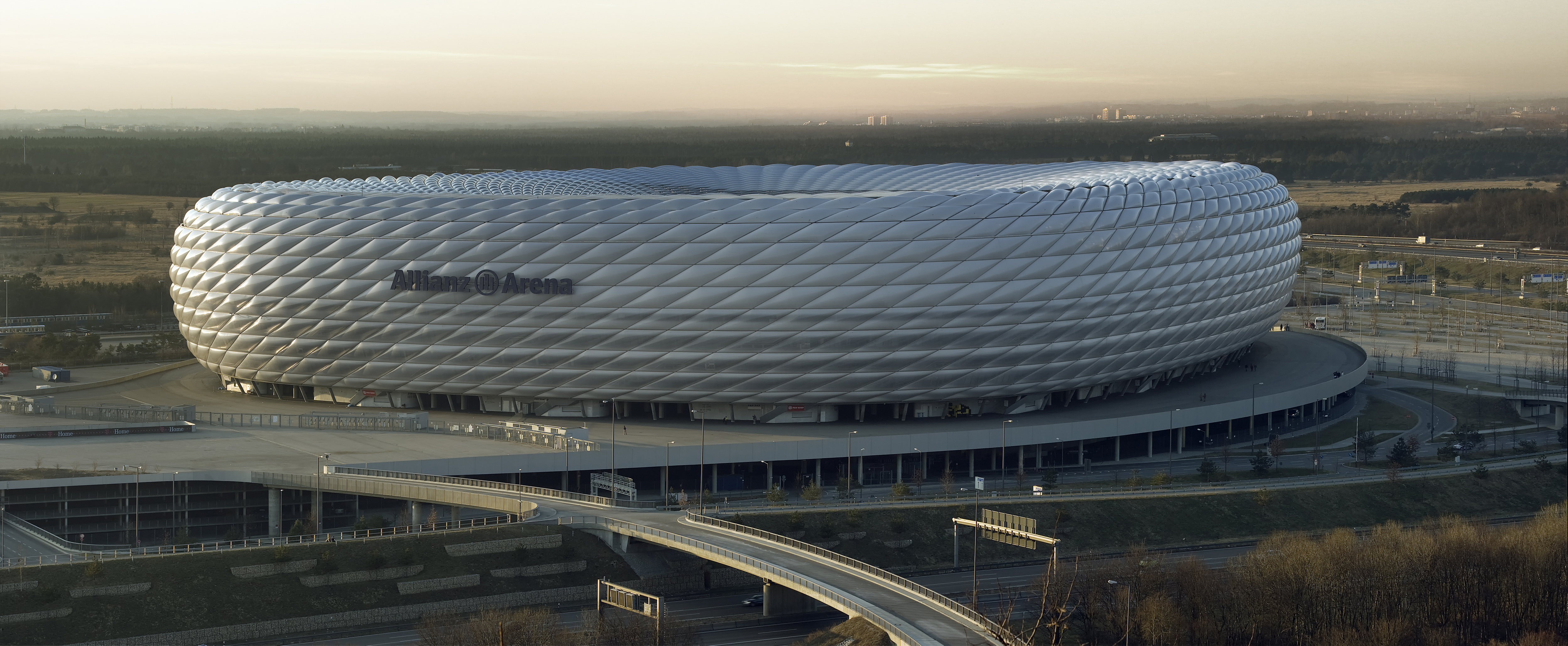 The Allianz Arena is a football stadium in the north of Munich, Germany. The two professional Munich football clubs FC Bayern München and TSV 1860 München have played their home games at Allianz Arena since the start of the 2005/06 season. Because of its shape, the stadium is nicknamed the « Schlauchboot » (inflatable boat).